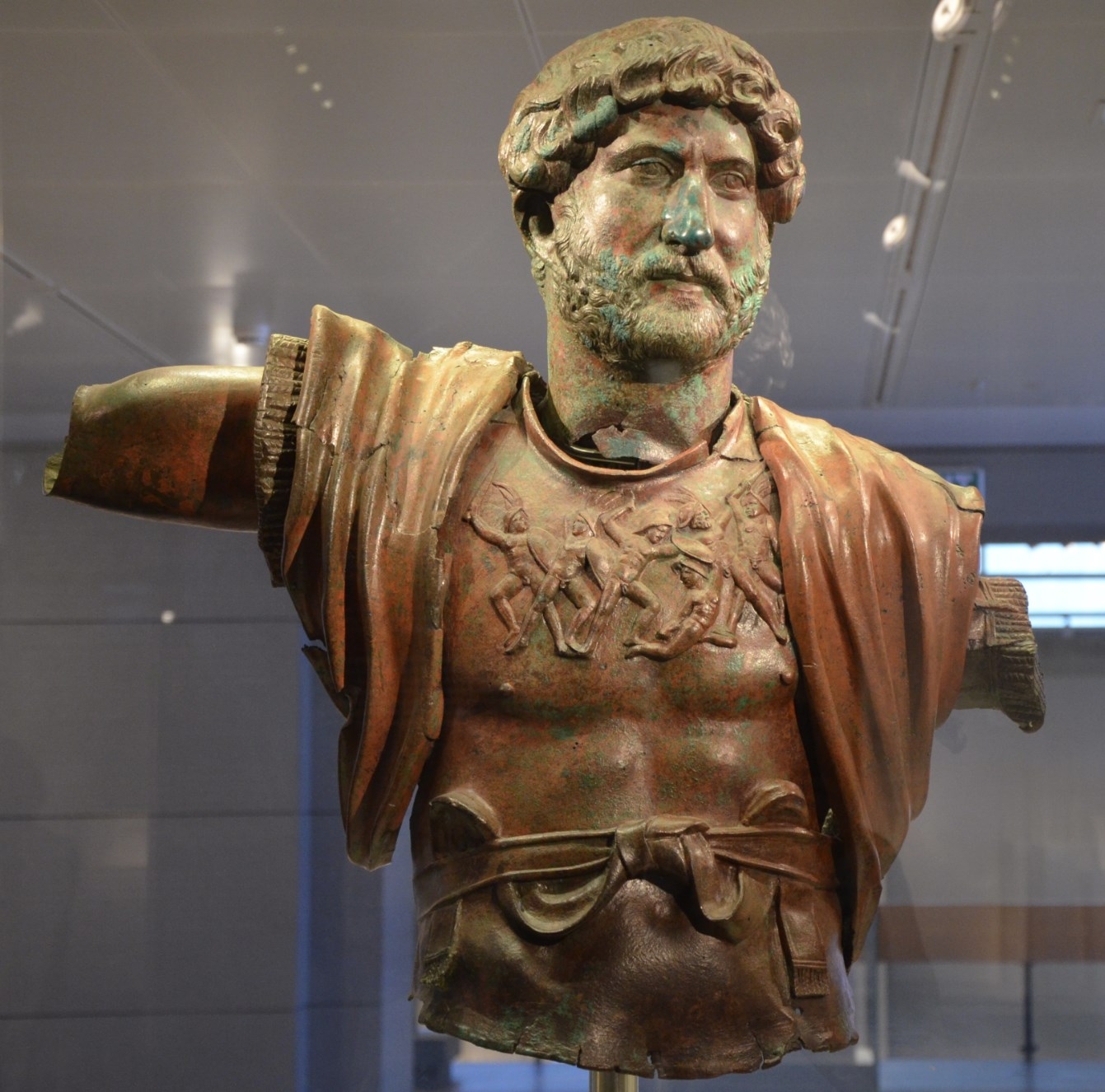 A statue of Hadrian, apparently used for the ritual worship of the emperor, was discovered in a camp of the Roman army. One of the few extant bronze sculptures of an emperor from the Roman Period, it portrays Hadrian in the typical pose of the supreme military commander greeting his troops. His muscle cuirass is decorated with an enigmatic depiction of archaic warriors. Probably cast in an imperial workshop, the statue features the standardized likeness of the emperor, down to the unique shape of his earlobe, a symptom of the heart disease that eventually caused his death. Publications: The Israel Museum, Publisher: Harry N. Abrams, Inc., 2005 Zalmona, Yigal, ed., The Israel Museum at 40: Masterworks of Beauty and Sanctity, The Israel Museum, Jerusalem, 2005 Beauty and Sanctity: the Israel Museum at 40. A Series of Exhibitions Celebrating the 40th Anniversary of the Israel Museum, Jerusalem, 2006